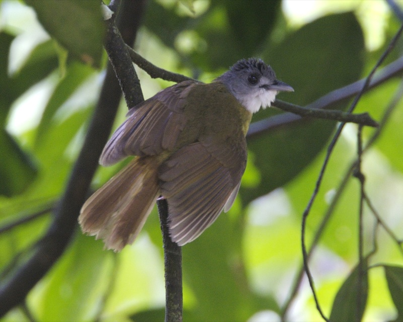 Yellow-bellied Bulbul Alophoixus phaeocephalus Nominate race, Alophoixus phaeocephalus phaeocephalus 14th. June 2009 Panti Forest, Johor, Malaysia 690V8107